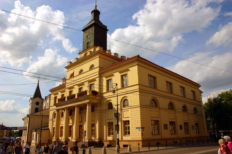 Lublin Town Hall